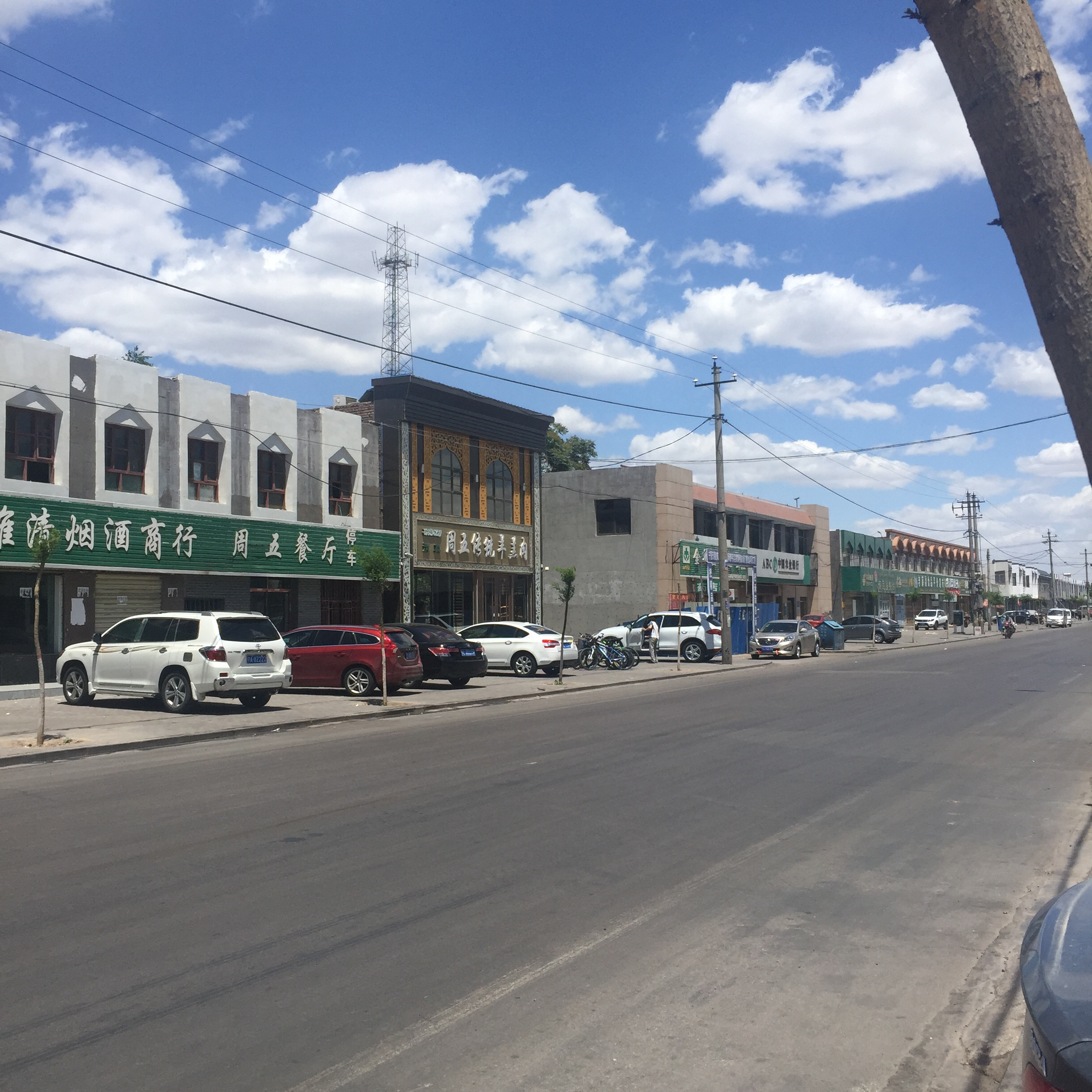 Huangquqiao Town, Shizuishan, Ningxia